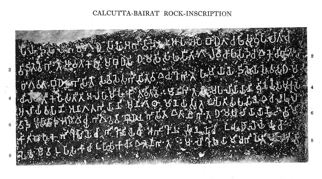 Ashoka Inscriptions Calcutta Bairat rock inscription [1]